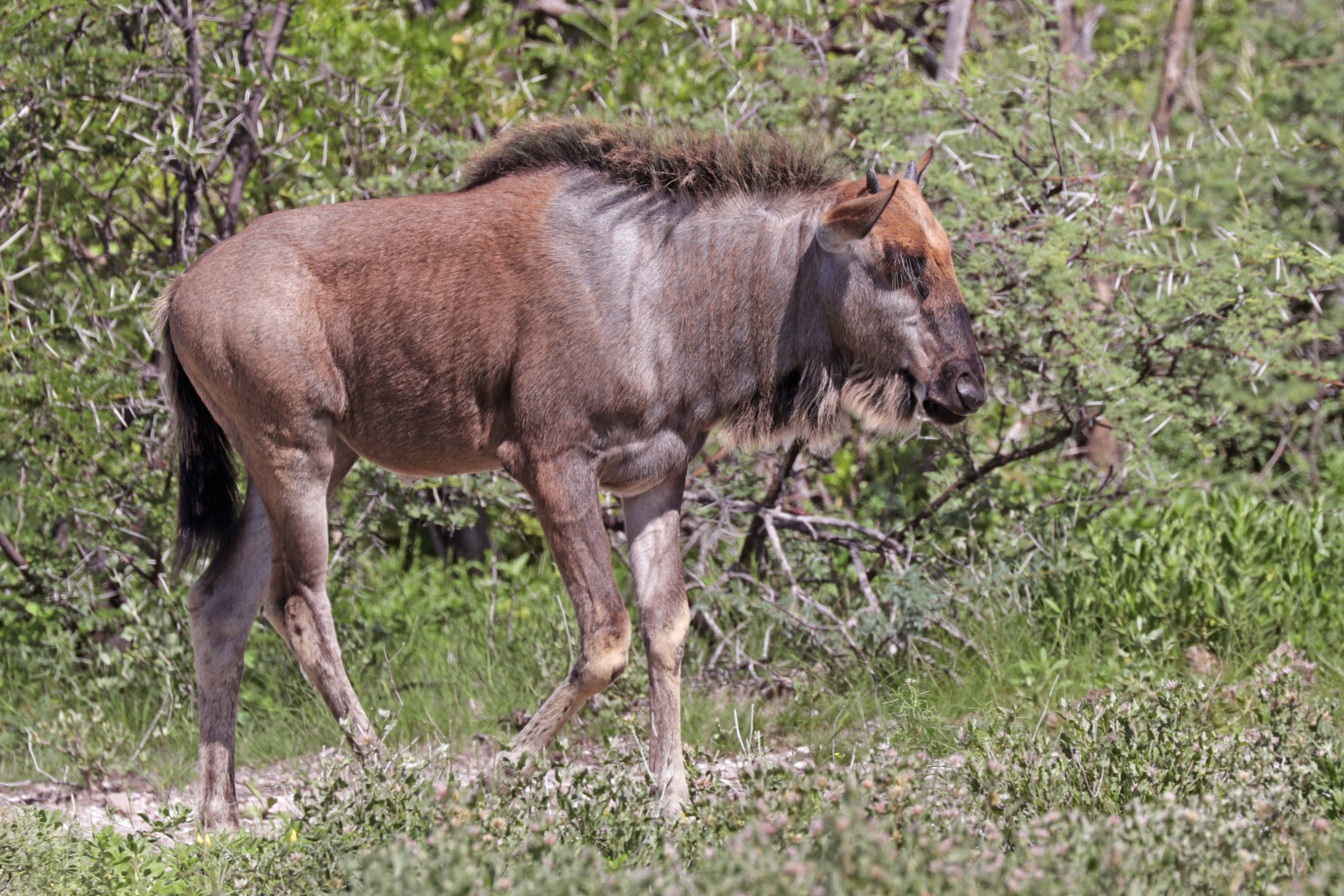 Blue wildebeest (Connochaetes taurinus taurinus) calf, Etosha National Park, Namibia